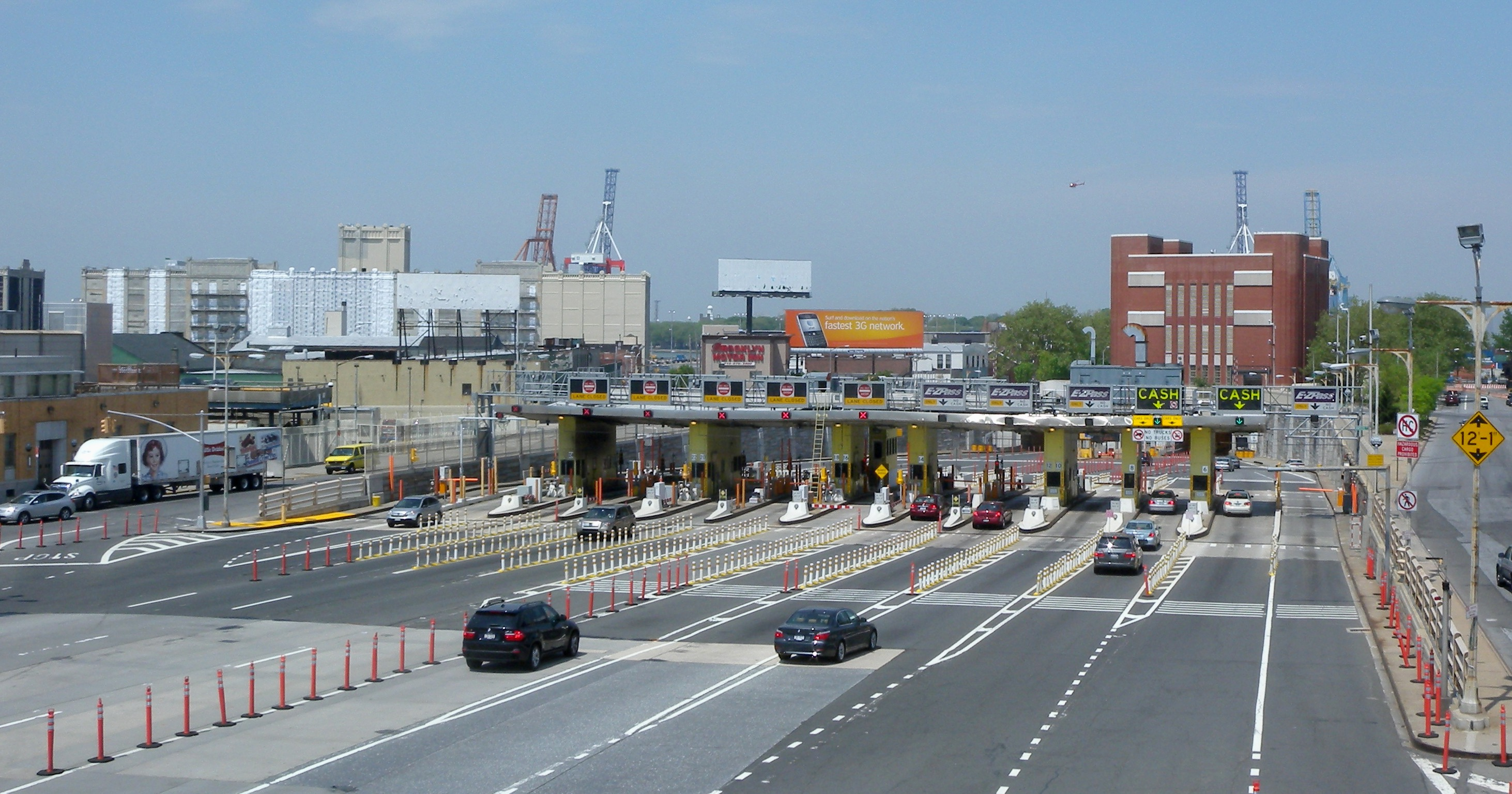 Looking north and down at BBT toll plaza from BQE overpass on a hazy midday during 5BBT.